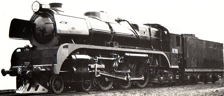 Photograph of Victorian Railways R class locomotive R 701 in 1951.